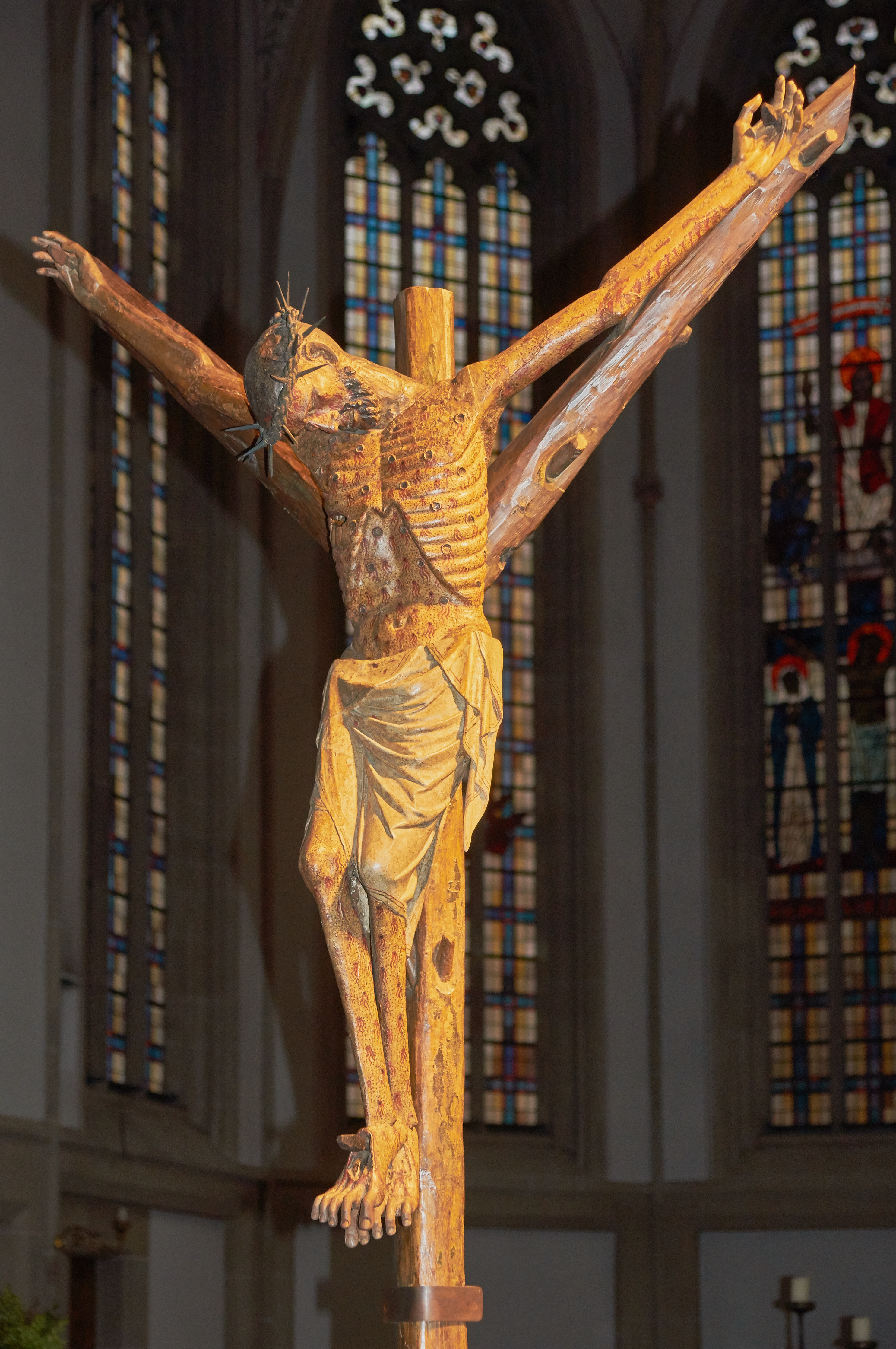 The gothic forked cross (in German language called "Bocholter Kreuz") in the Saint George church of Bocholt, North Rhine-Westphalia, Germany.